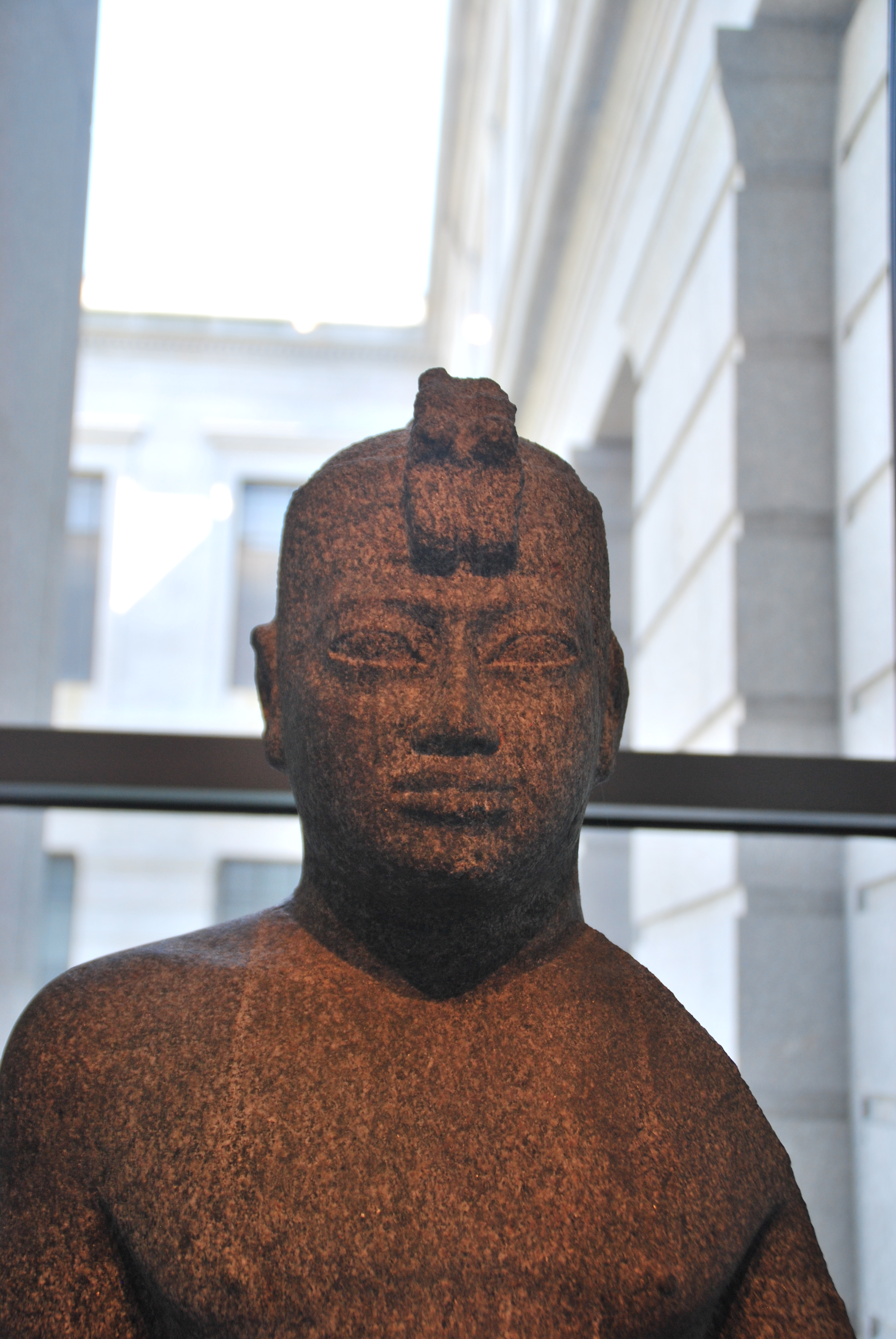 Statue of King Senkamanisken; Nubian, Napatan Period, reign of Senkamanisken, 643–623 B.C.; found at Gebel Barkal, Nubia (Sudan); Granite gneiss; Height x width: 147.8 x 50.1 cm (58 3/16 x 19 3/4 in.); Today at the Museum of Fine Arts at Boston, Accession Number 23.731; more Informations.